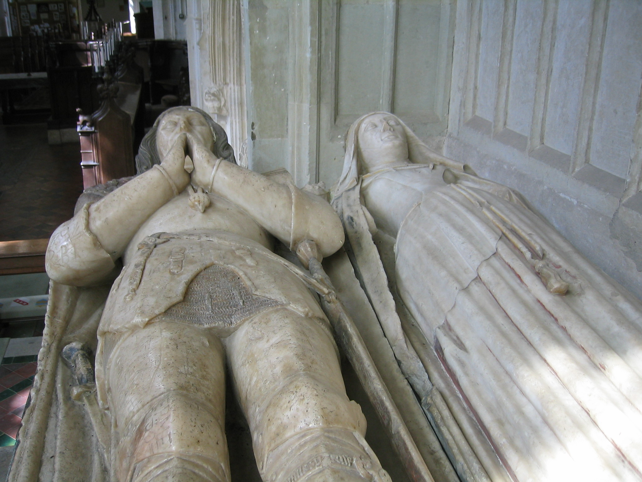 Tomb of John de la Pole, 2nd Duke of Suffolk (died 1492), and Margaret his wife, in St Andrew's parish church, Wingfield, Suffolk